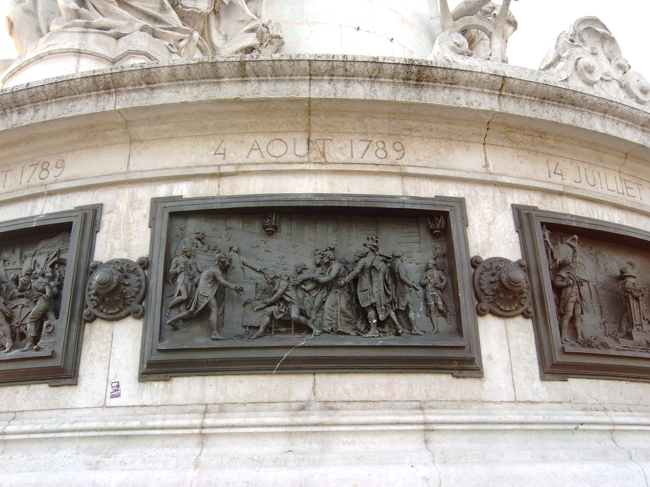 Night of August 4th, abolition of feudality and fiscal privileges